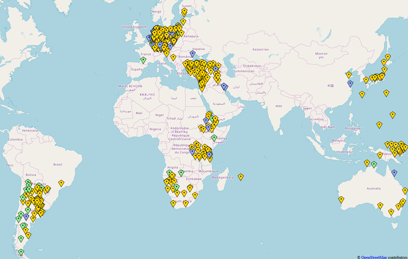 Dossiers about general subjects and events within w:20th Century Press Archives worldwide (as of October 2018). Focal points of the until now published dossiers, besides Germany (still incomplete) and particularly Hamburg (complete), are the former German colonies, Western Europe as a whole, countries of the Middle East, Japan, Argentina, and the (Ant)Arctic.